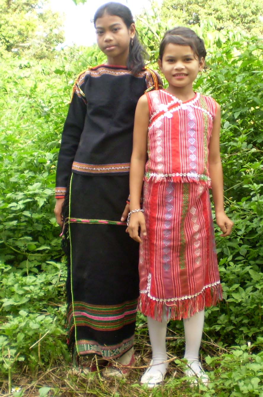 Young Ê Đê, members of the mountain Cham people.